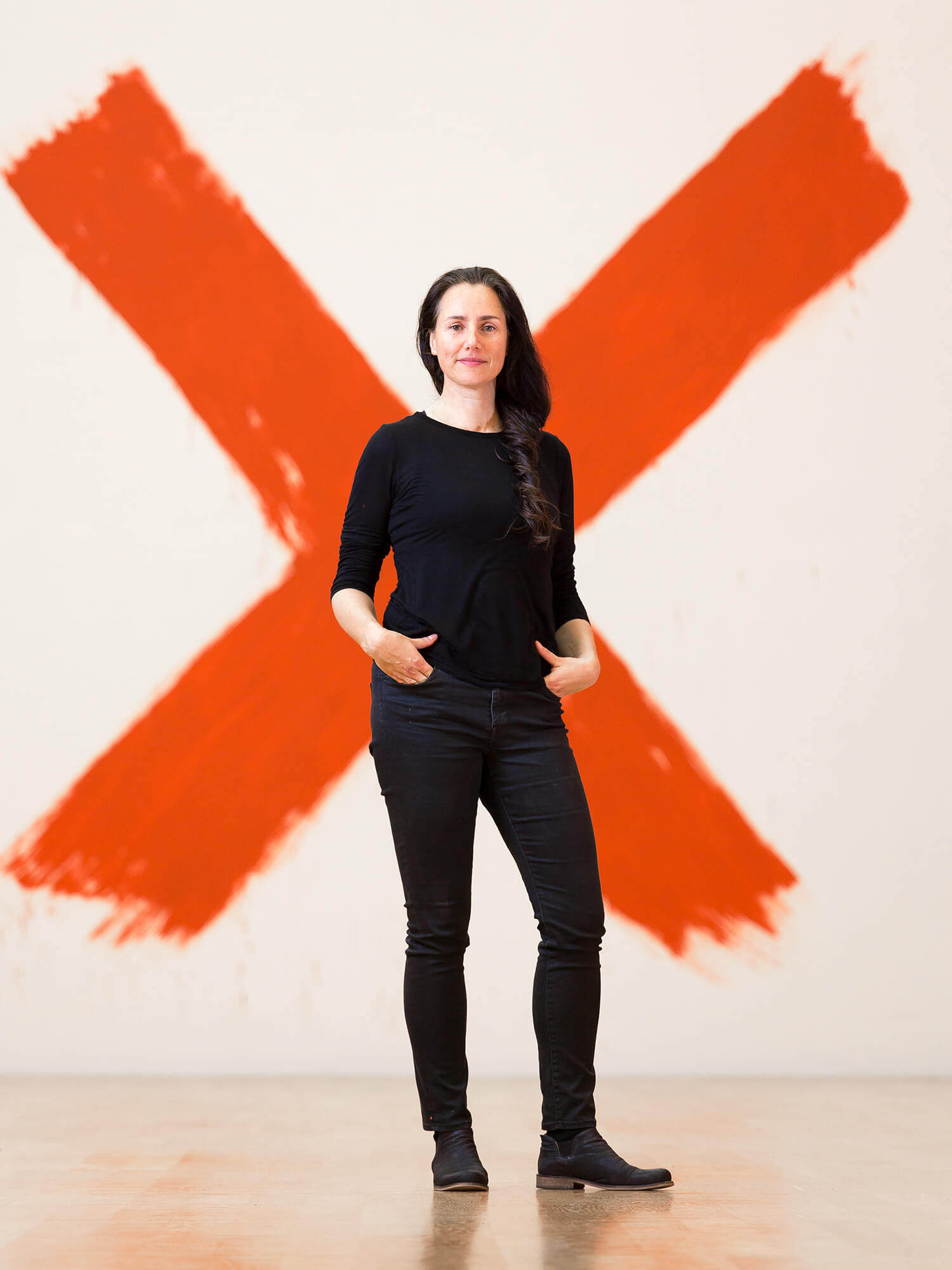 Petra Mattheis during her exhibition 'Riding the Red Tide' at the Museum der bildende Künste in Leipzig